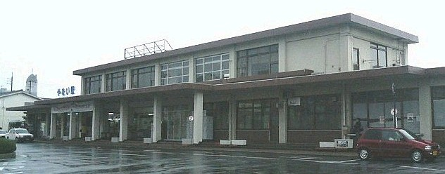 Yanai Station, Sanyō Main Line, West Japan Railway Company.